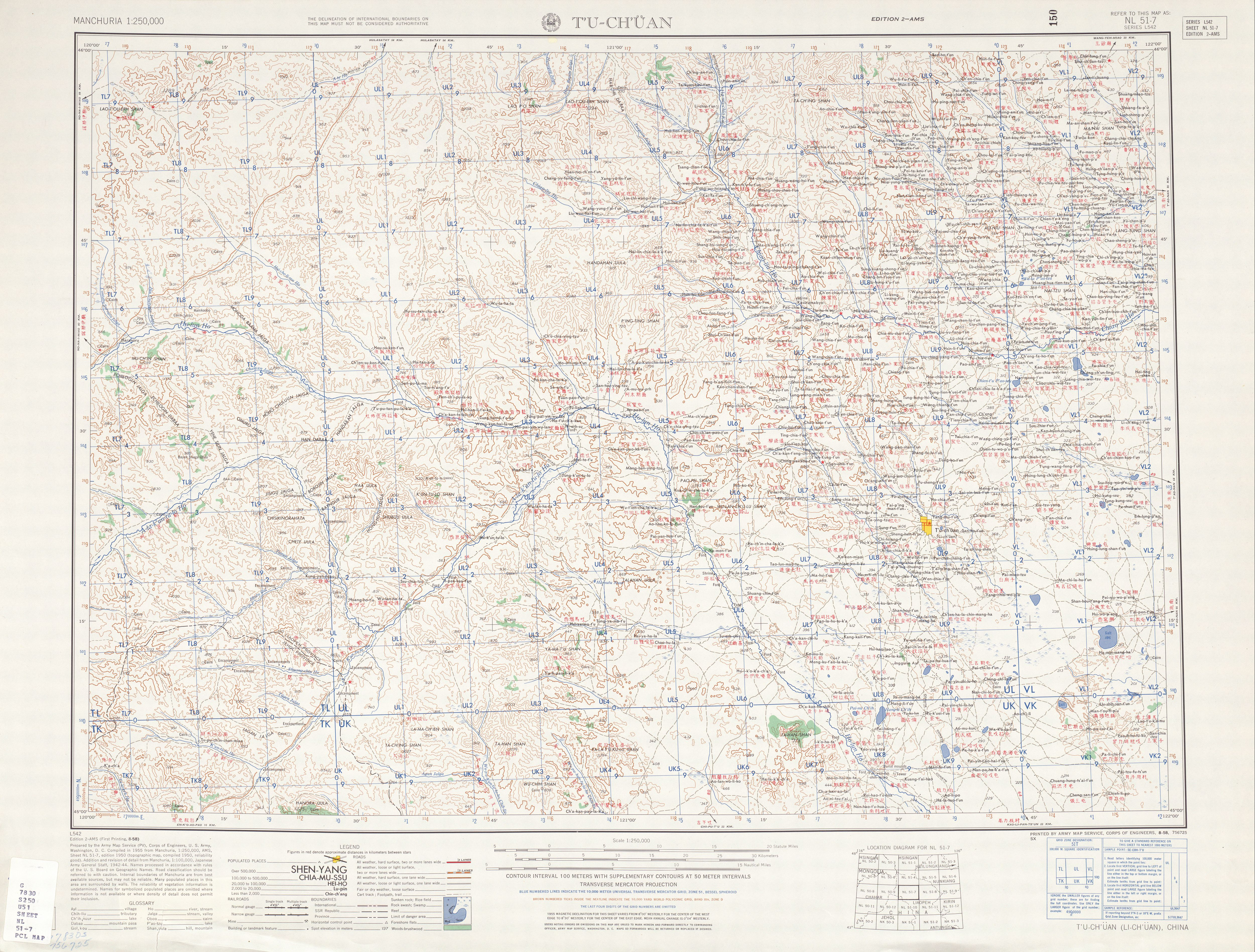 Manchuria AMS Topographic Maps